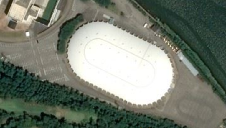 Akita Prefectural Skating Rink